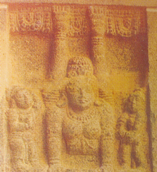 Gangavataranam karana in the Chidambaram temple (India)